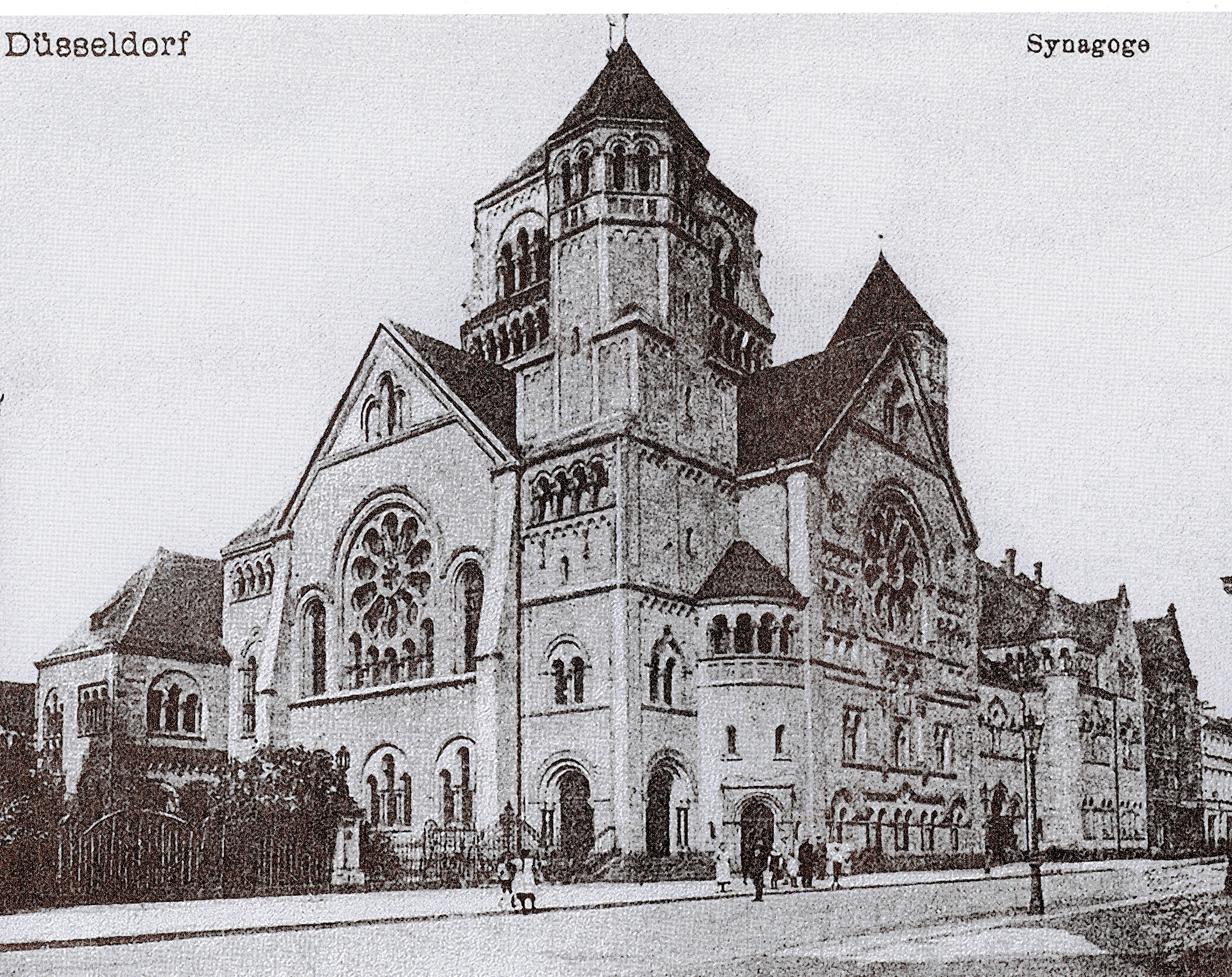 f